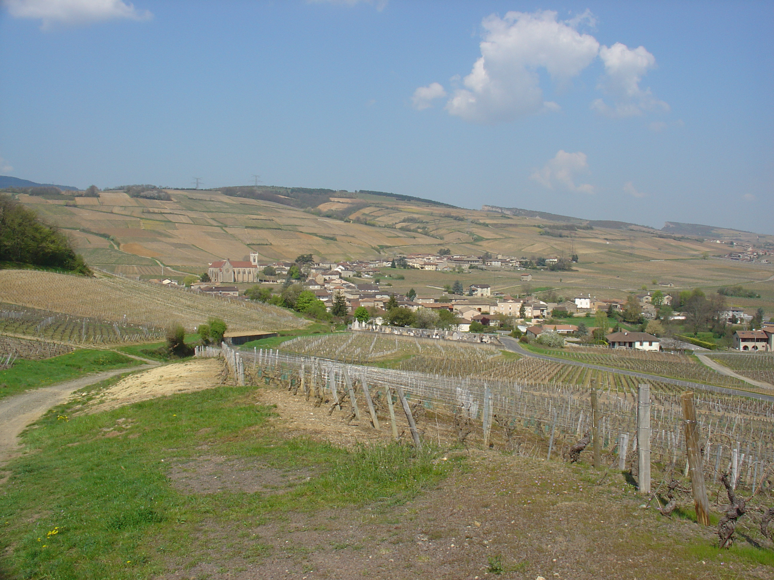 The village of Fuissé. Saône et Loire (71). France. In the background, Solutré 's rock (center) and Vergisson'rock (right)